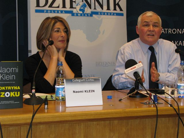 Naomi Klein (b. May 5, 1970), Canadian journalist, author and activist, best known for her book "No Logo", and Jan Krzysztof Bielecki (b. 1951), Polish politician and economist.